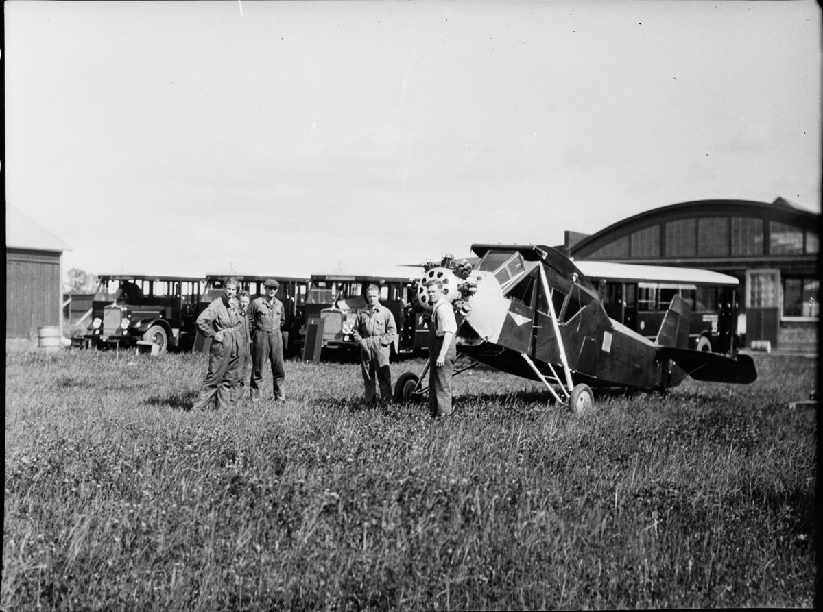 An ASJA L1 Viking I at Jönköping, Sweden Photograph by: unknown Date: 1932 Photo Nr: 2076-83E